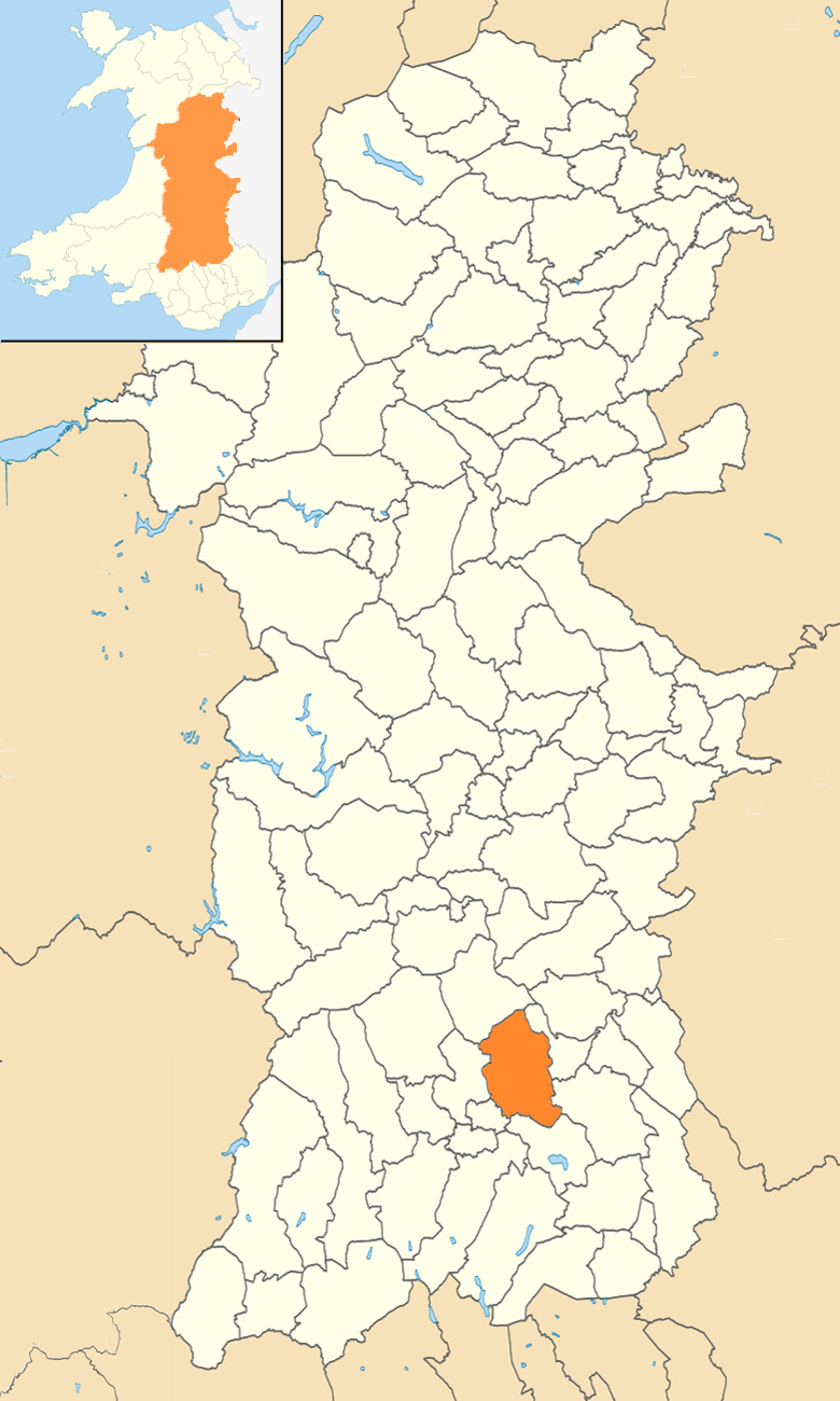 Location map of the community (civil parish) of Felin-fach in the south of Powys, Wales